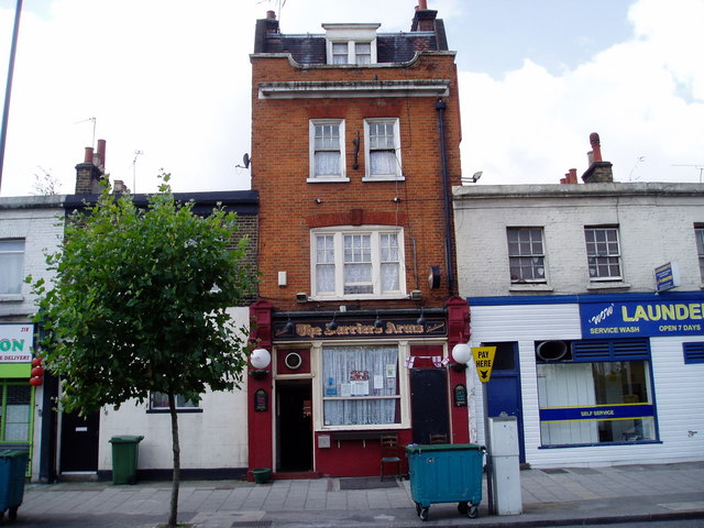 Farriers Arms pub At 212 / 214 Lower Road, Rotherhithe SE16. Opened about 1870 when listed as a beer house.